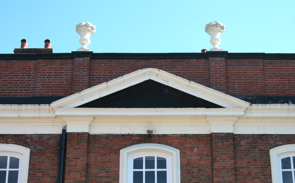 Pediment of 9 Mill Street, Nantwich, Cheshire